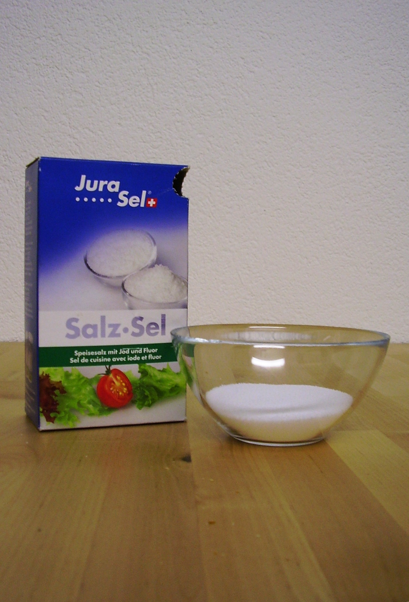 A pac salt from the Vereinigte Schweizer Rheinsalinen